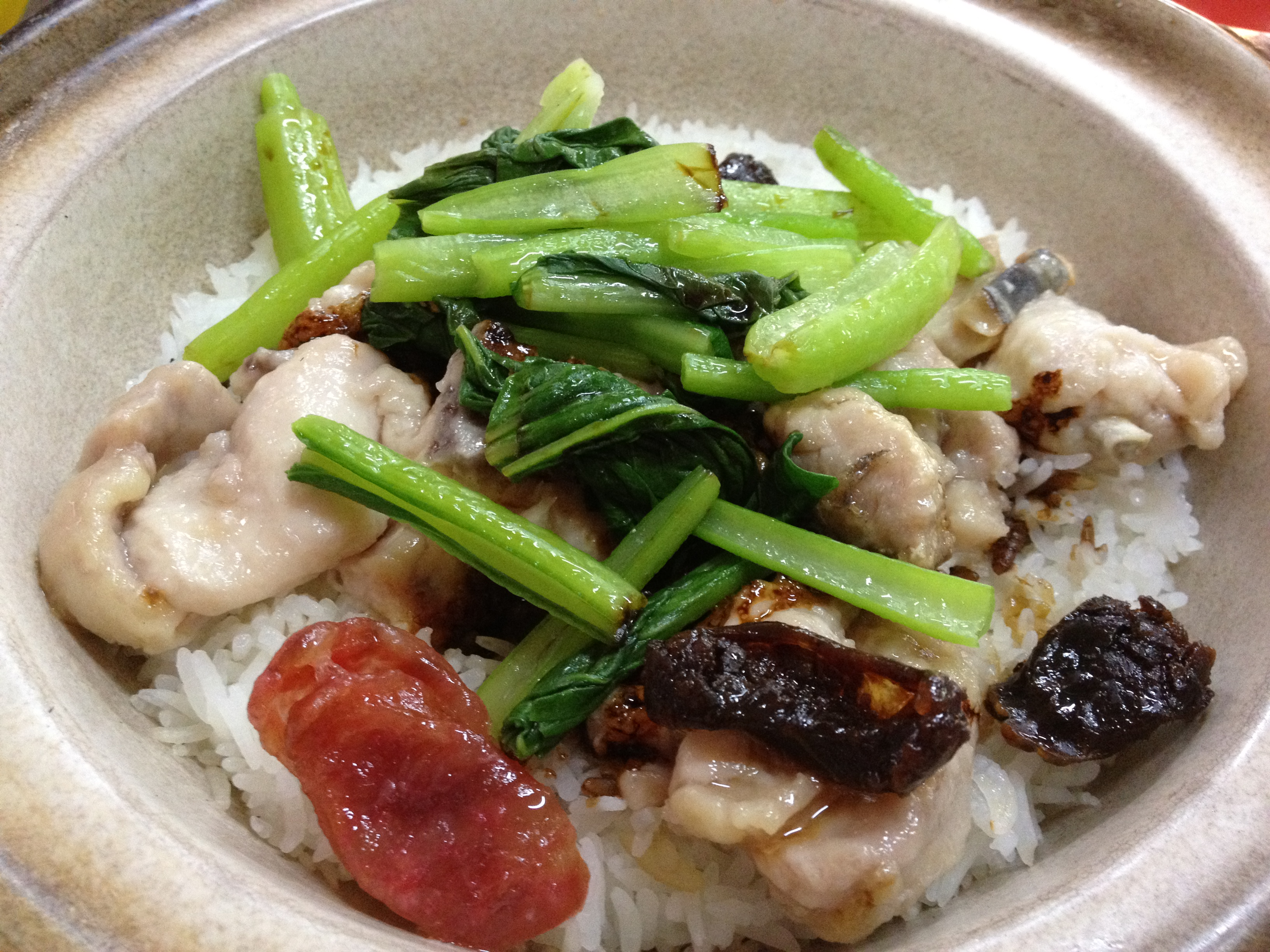 Claypot chicken rice served with sliced chicken, salted fish, chinese sausage and vegetables. The rice is cooked in the claypot first and the cooked ingredients are added in later. Some places serve it with dark soya sauce. Traditionally, the cooking is done over a charcoal stove, giving the dish a distinctive flavour.